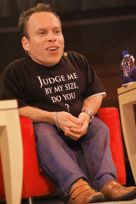 Warwick Davis answers questions from the audience in the "Stars of the Saga" show (Disney's MGM Studios, Florida, USA). Photo by Ron Riccio. For video coverage of the fourth and final Disney Weekend of 2007, click here.